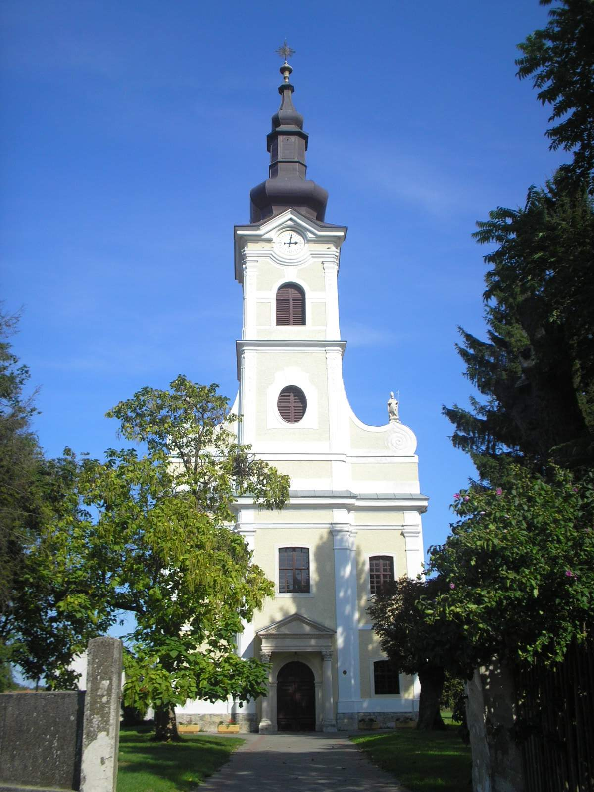 The catholic church in Donji Martijanec, Croatia